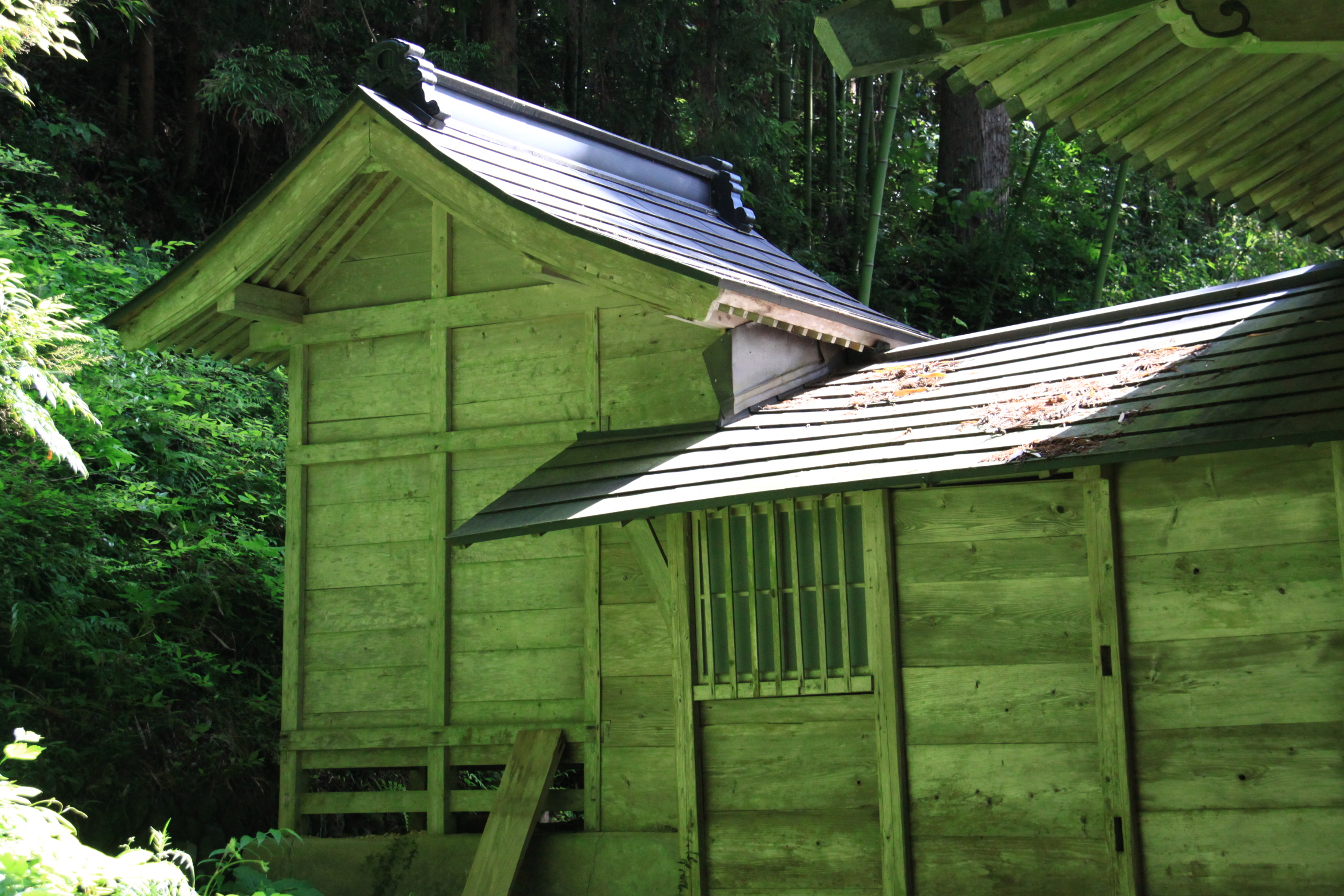 Hitsujisaki jinja Honden in Mano, Ishinomaki, Miyagi, Japan.